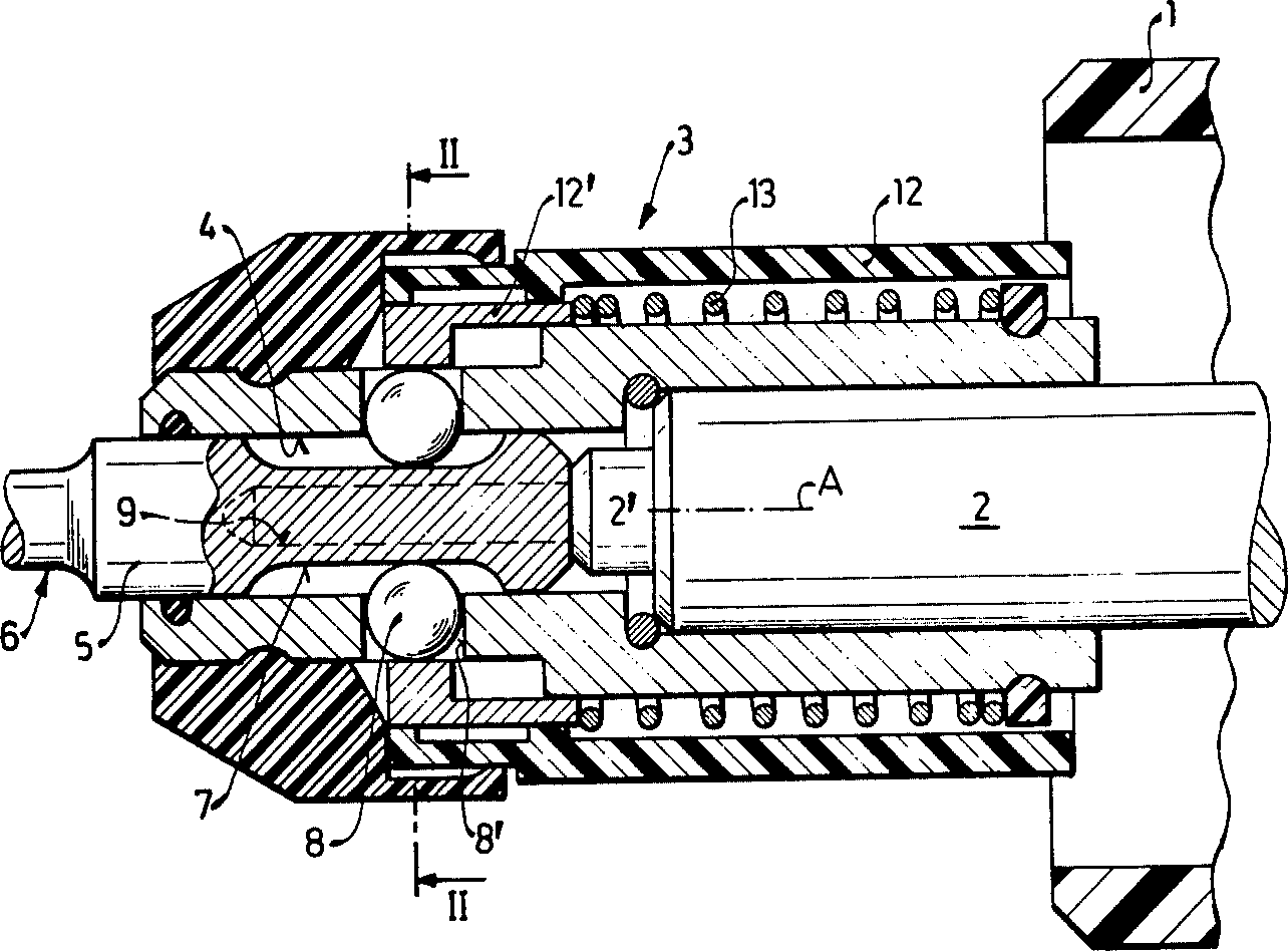 Patent diagram of a Bosch Special Direct System chuck for a hammer drill. Patent #4107949